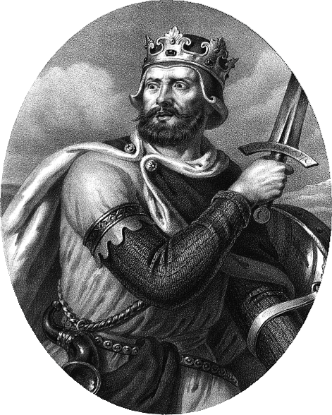 Boleslaus III of Poland